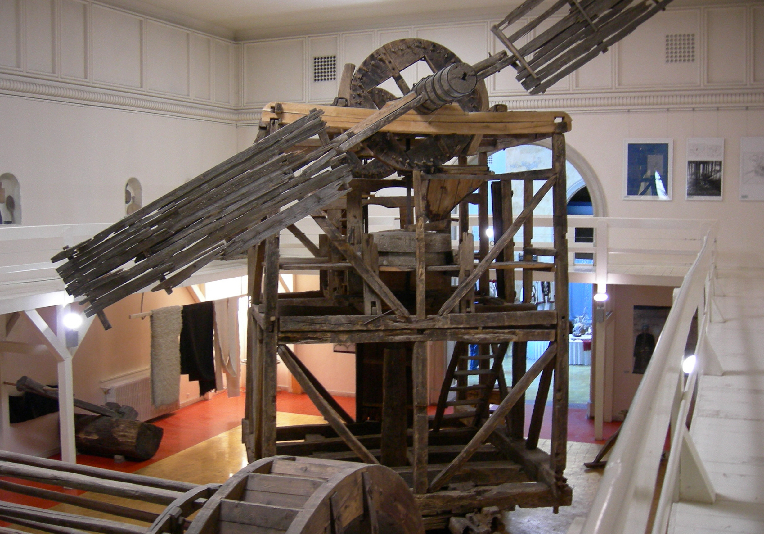 Watermill and windmill, Museum of the Romanian Peasant, Bucharest, Romania.